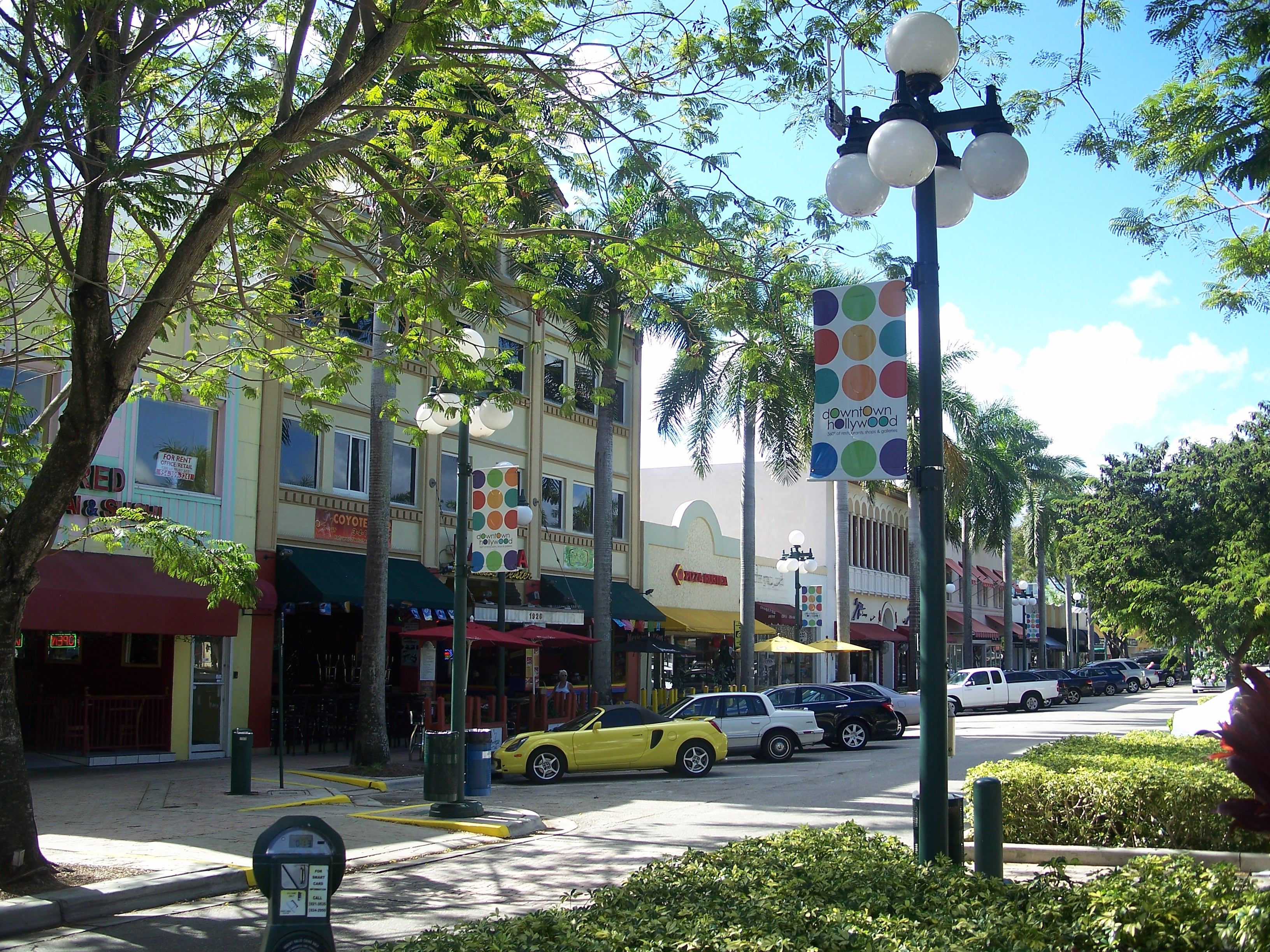 Hollywood Boulevard Historic Business District — Hollywood, Florida.